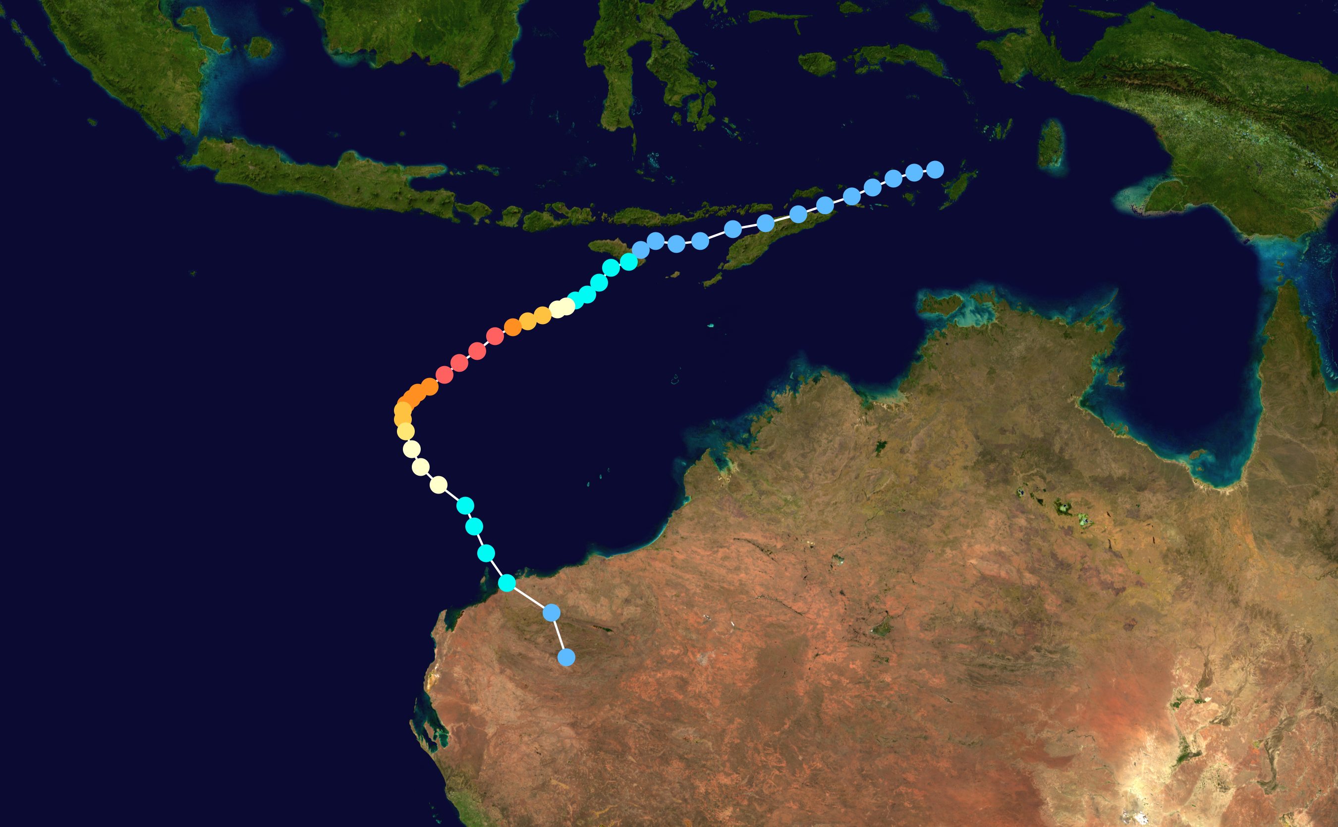 Cyclone Inigo (2003) track. Uses the color scheme from the Saffir-Simpson Hurricane Scale.